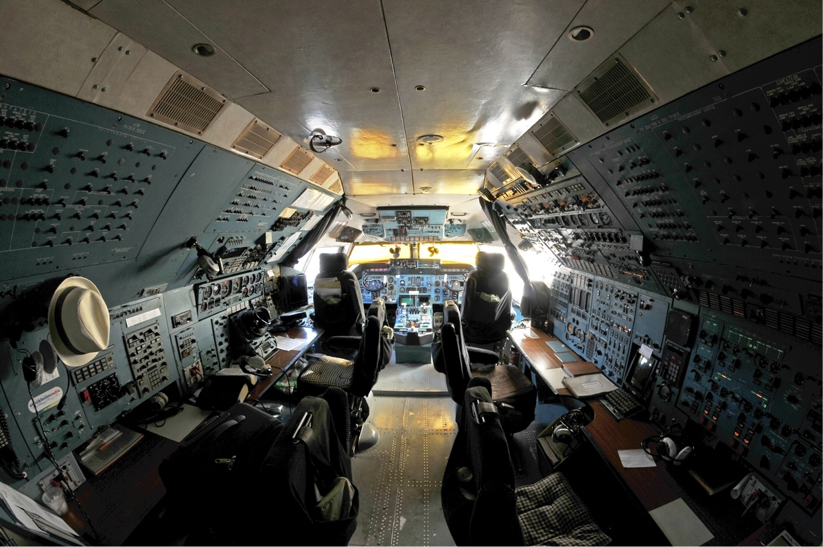 Polet Antonov An-124-100 cockpitStations (from left to right): radio operator, navigator, pilot, co-pilot, engineers